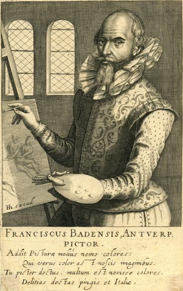 Portrait of Frans Badens